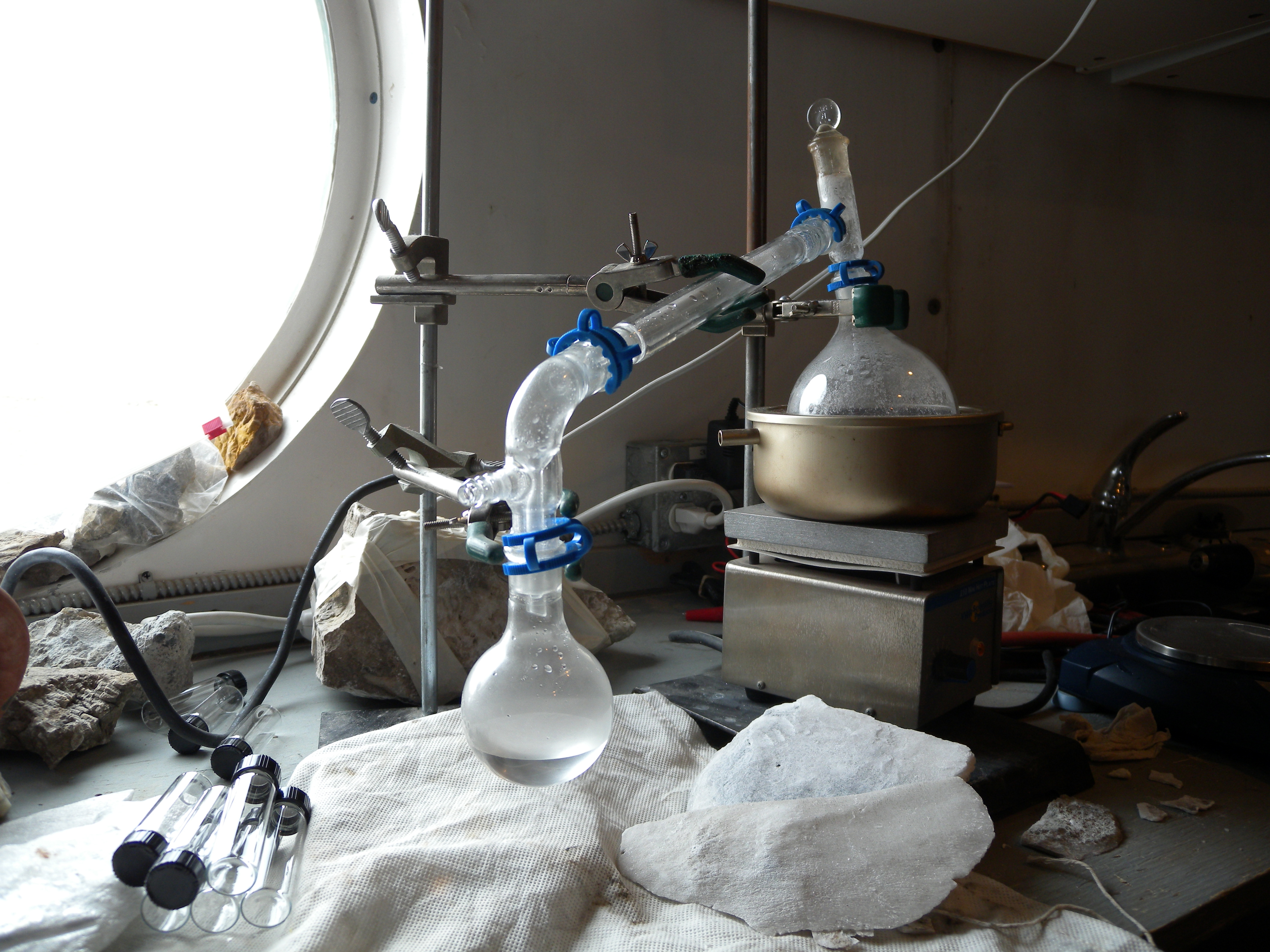 Gypsum distillation apparatus in the FMARS lab